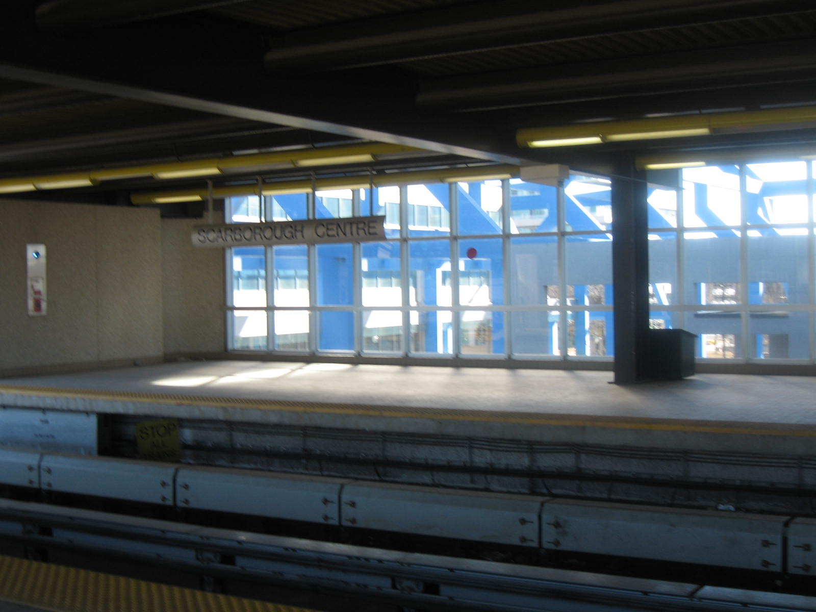 Scarborough Centre station eastbound platform to McCowan